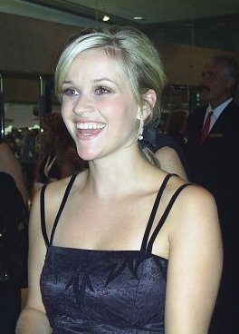 Reese Witherspoon at the premiere of Walk the Line, Toronto Film Festival 2005